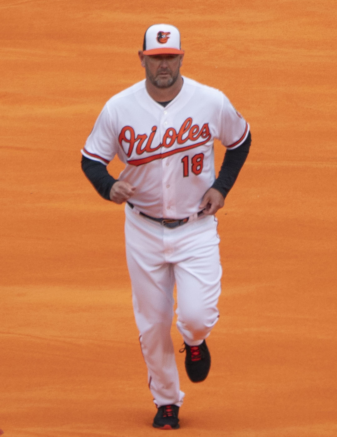 Brandon Hyde of the Baltimore Orioles is introduced to the crowd prior to an April 4, 2019 game at Camden Yards in Baltimore.